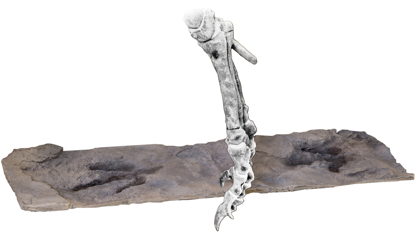 Therapod dinosaur footprint